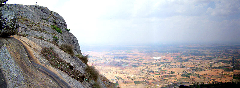 A view from a cliff at Nandi Hills, India.